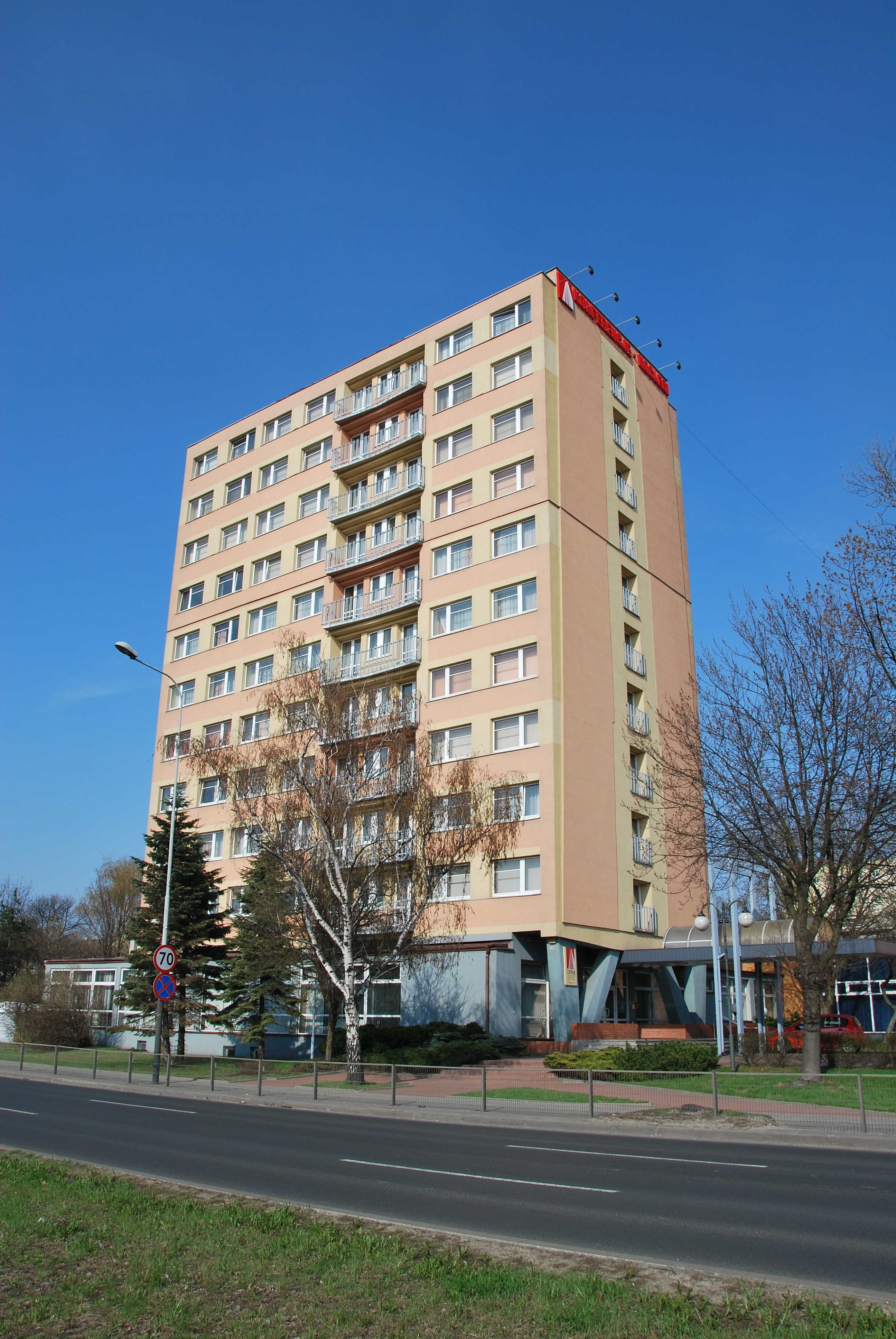 University of Łódź conference center, Łódź 16-18 Kopcińskiego Street